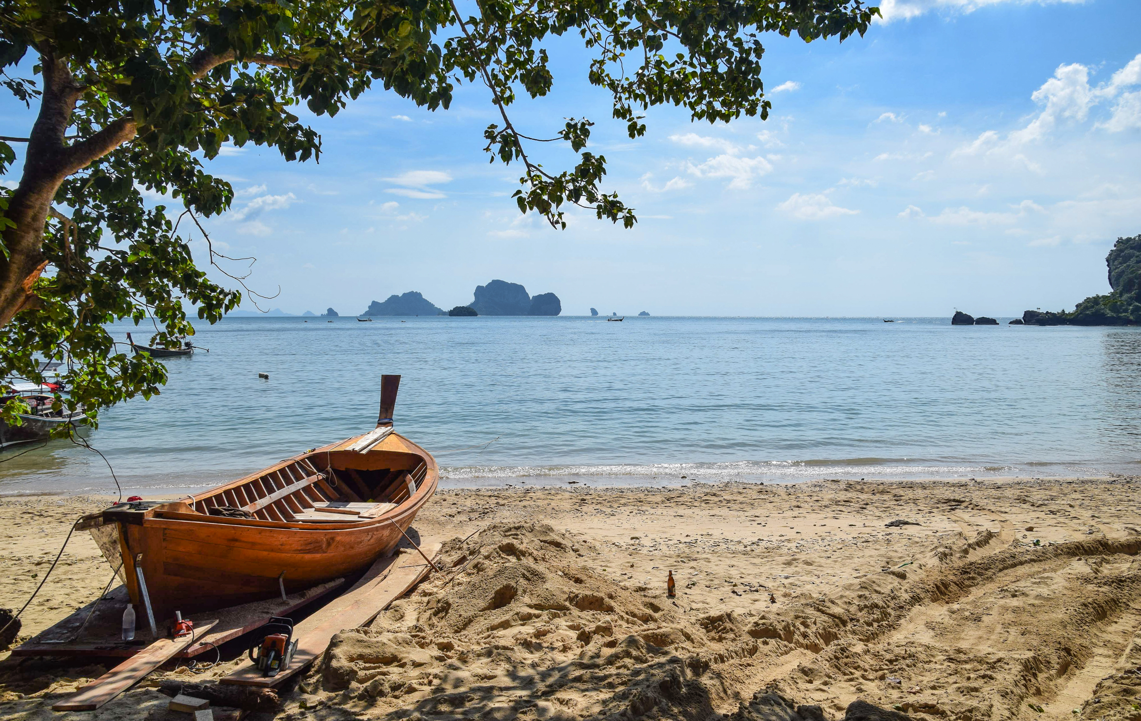 Ton Sai Beach on Rai Leh peninsula in Krabi province in southern Thailand